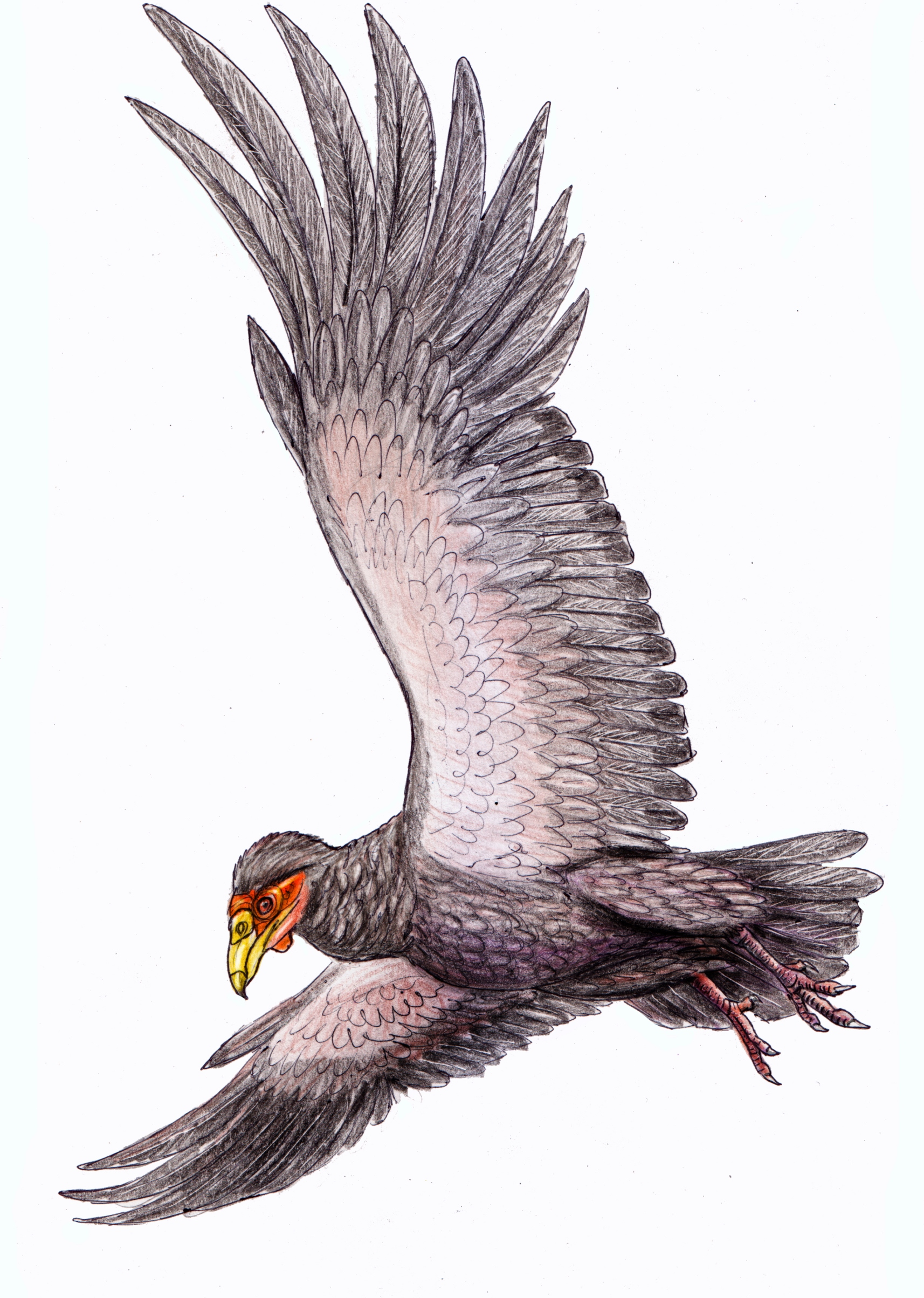 Teratornis merriami, a teratorn from Pleistocene of North America